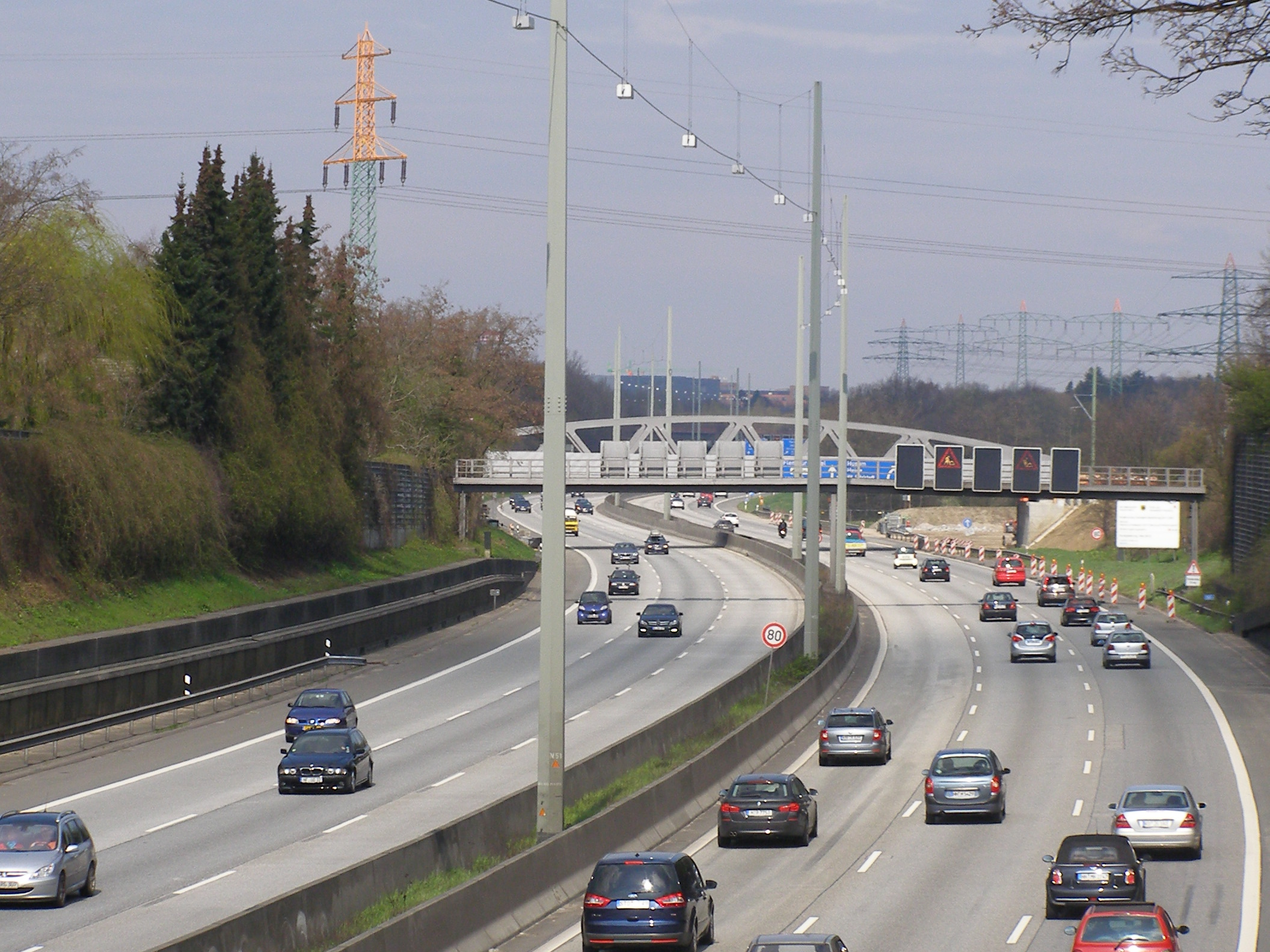 Bundesautobahn 7 with bridge of the Güterumgehungsbahn Hamburg, view from the south